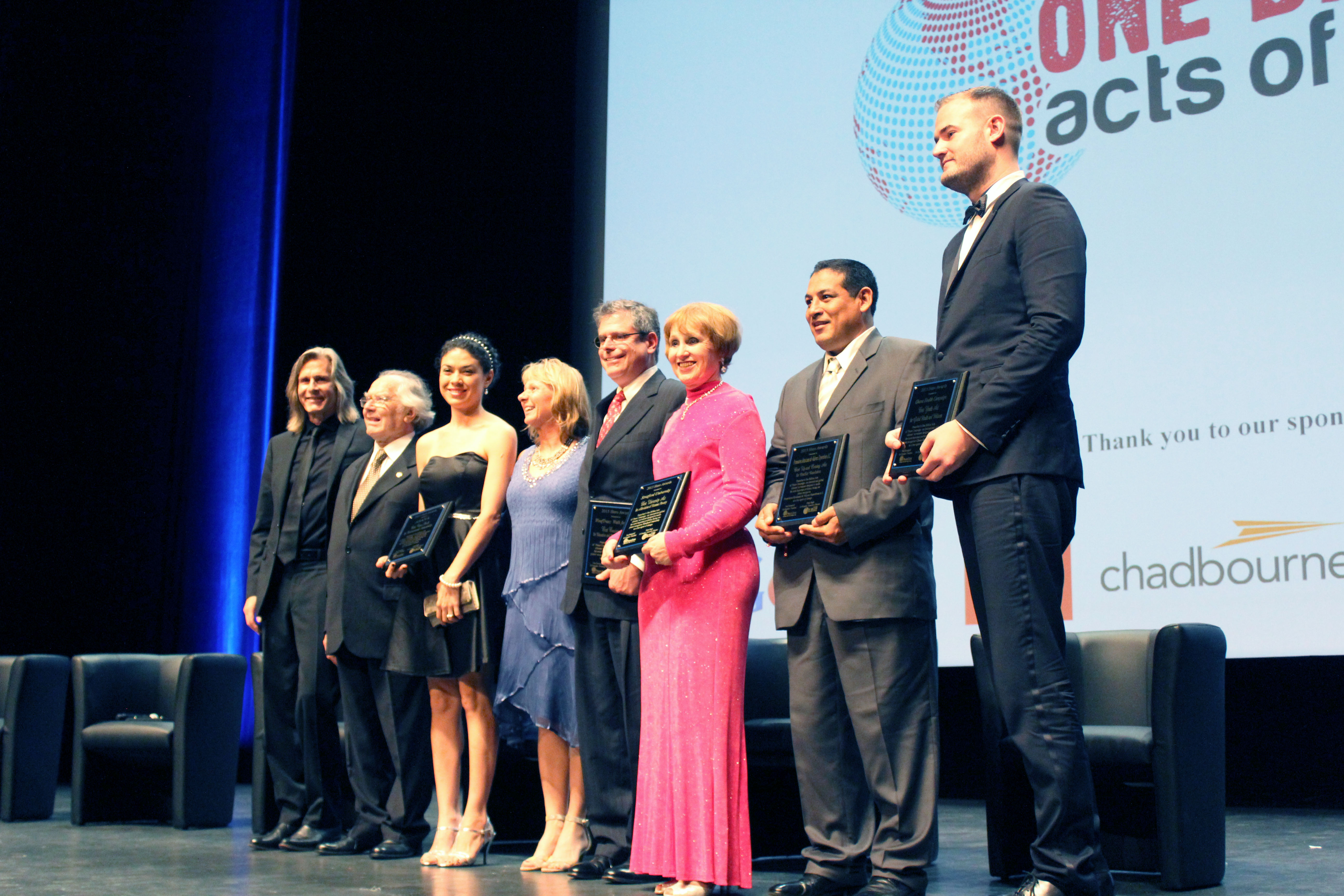 One Billion acts of peace hero awards ceremony